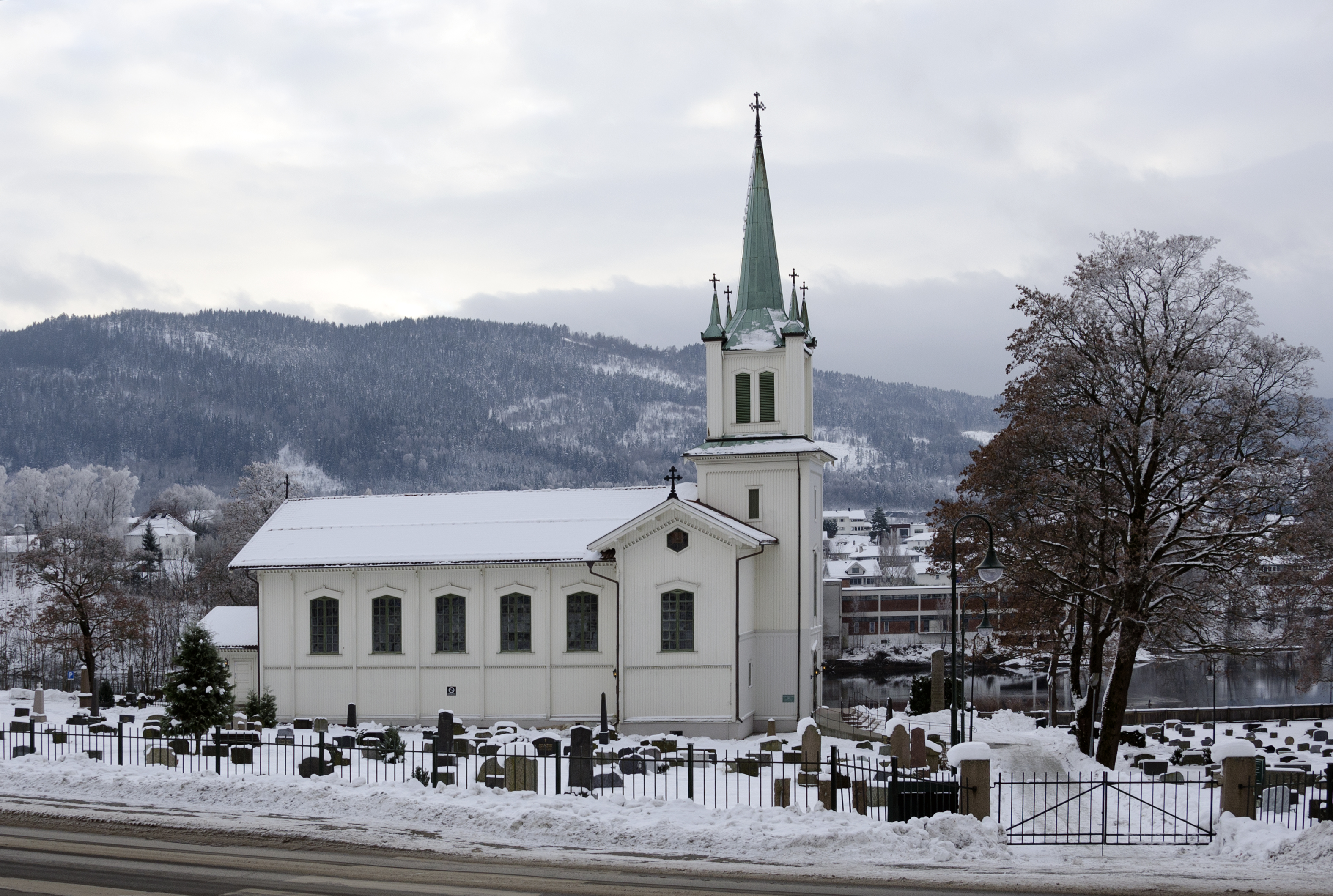 Lower Eiker church seen from the north.